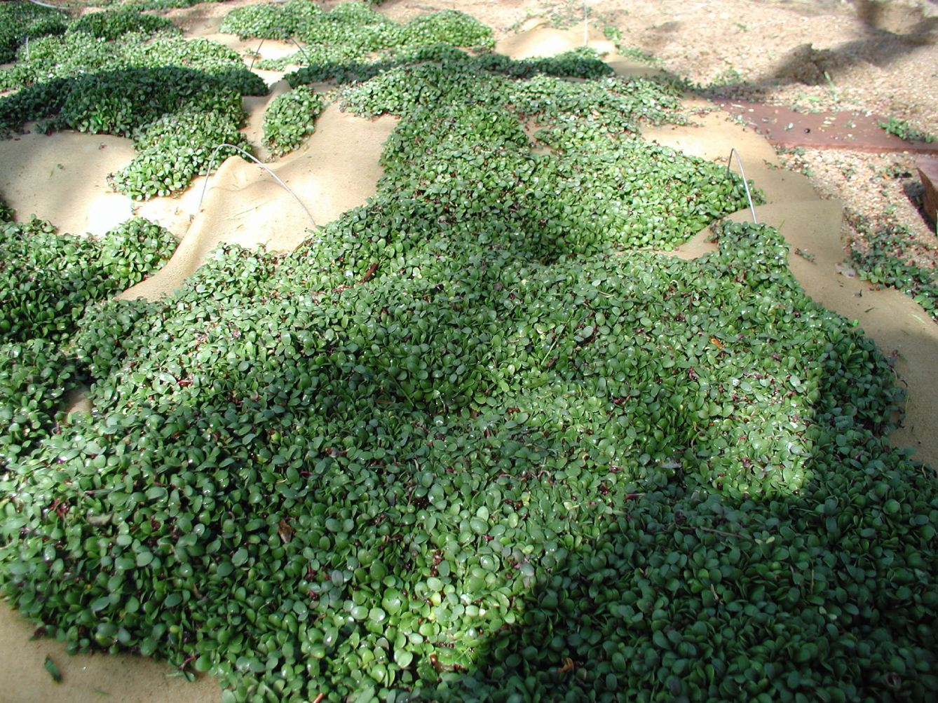 This photo shows germinated Crimson Clover Sprouts with 4 micro-sprinklers positioned at the four sides of the sand box. The sprinklers are regulated with a 1 gallon per hour drip emitter (1/4 gallon per hour going to each sprinkler).